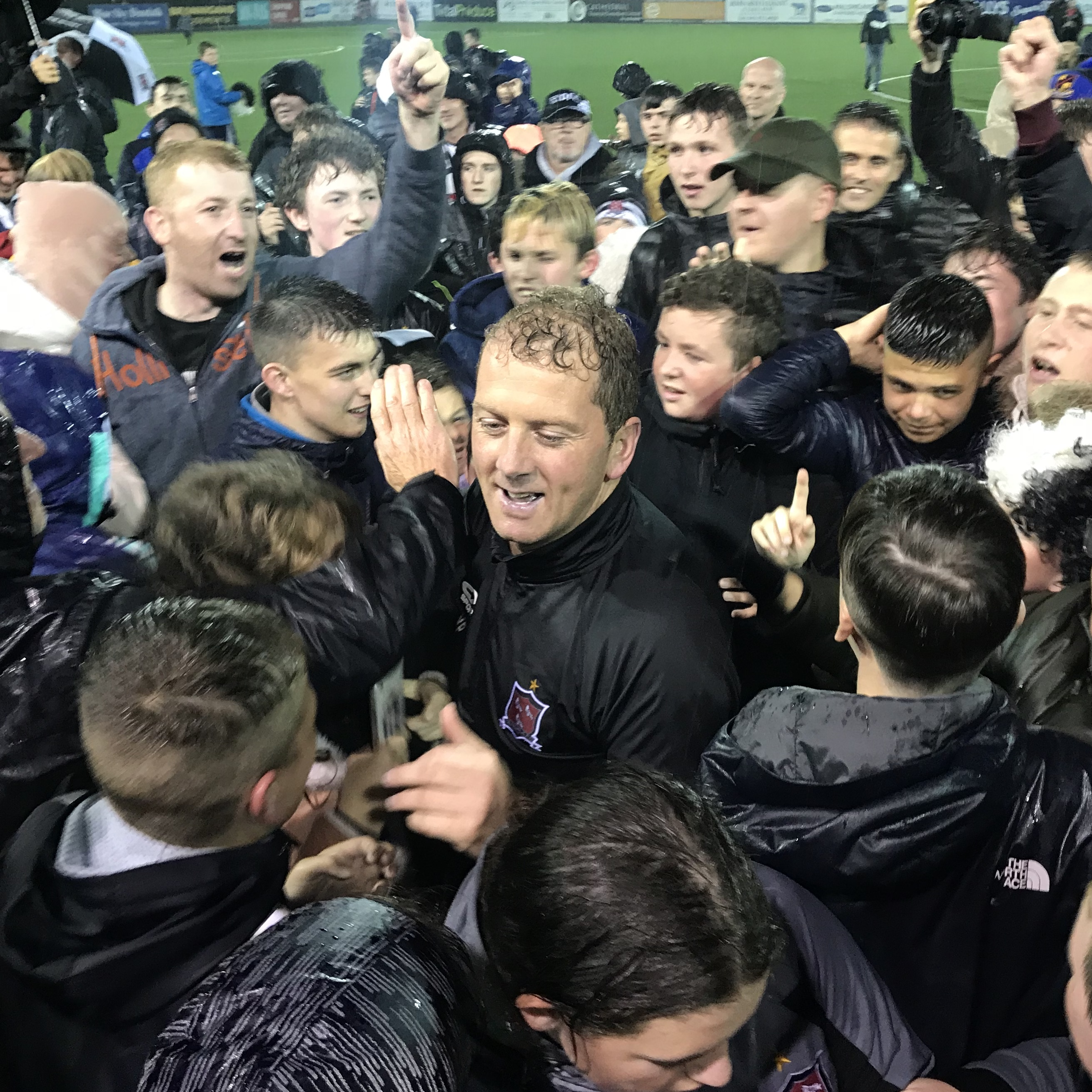 Dundalk F.C. manager, Vinny Perth, celebrates the club’s 2019 league title success with fans at Oriel Park.